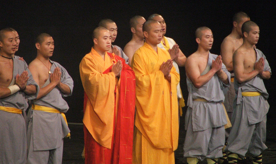 Shaolin monks during a martial art exhibition